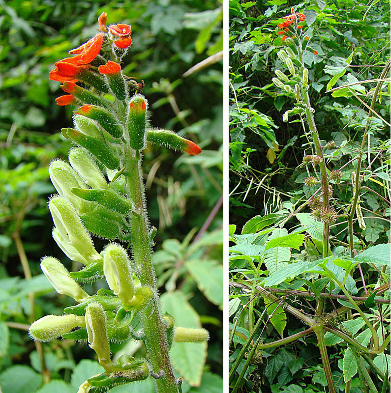 A burr vine, native to the highlands from Guatemala to Bolivia. Photo from near Boquete, Panama.